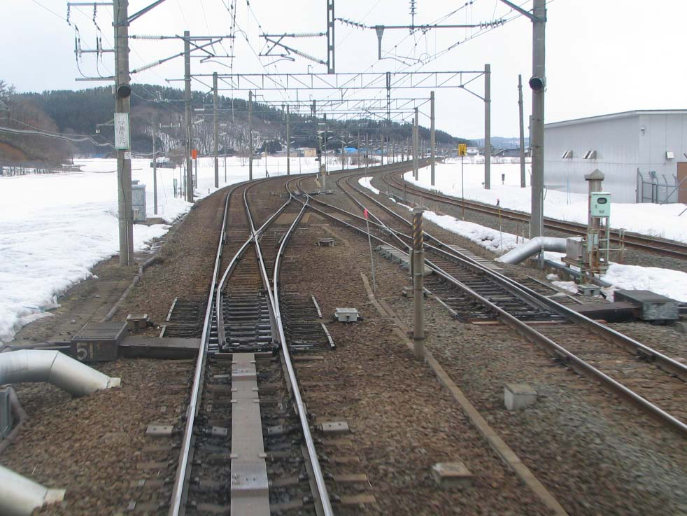 Shin-nakaoguni Signal box as seen from Tsugaru-Imabetsu Station side.